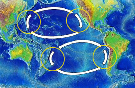 The two ocean-wide gyres in the North Pacific and South Pacific oceans.